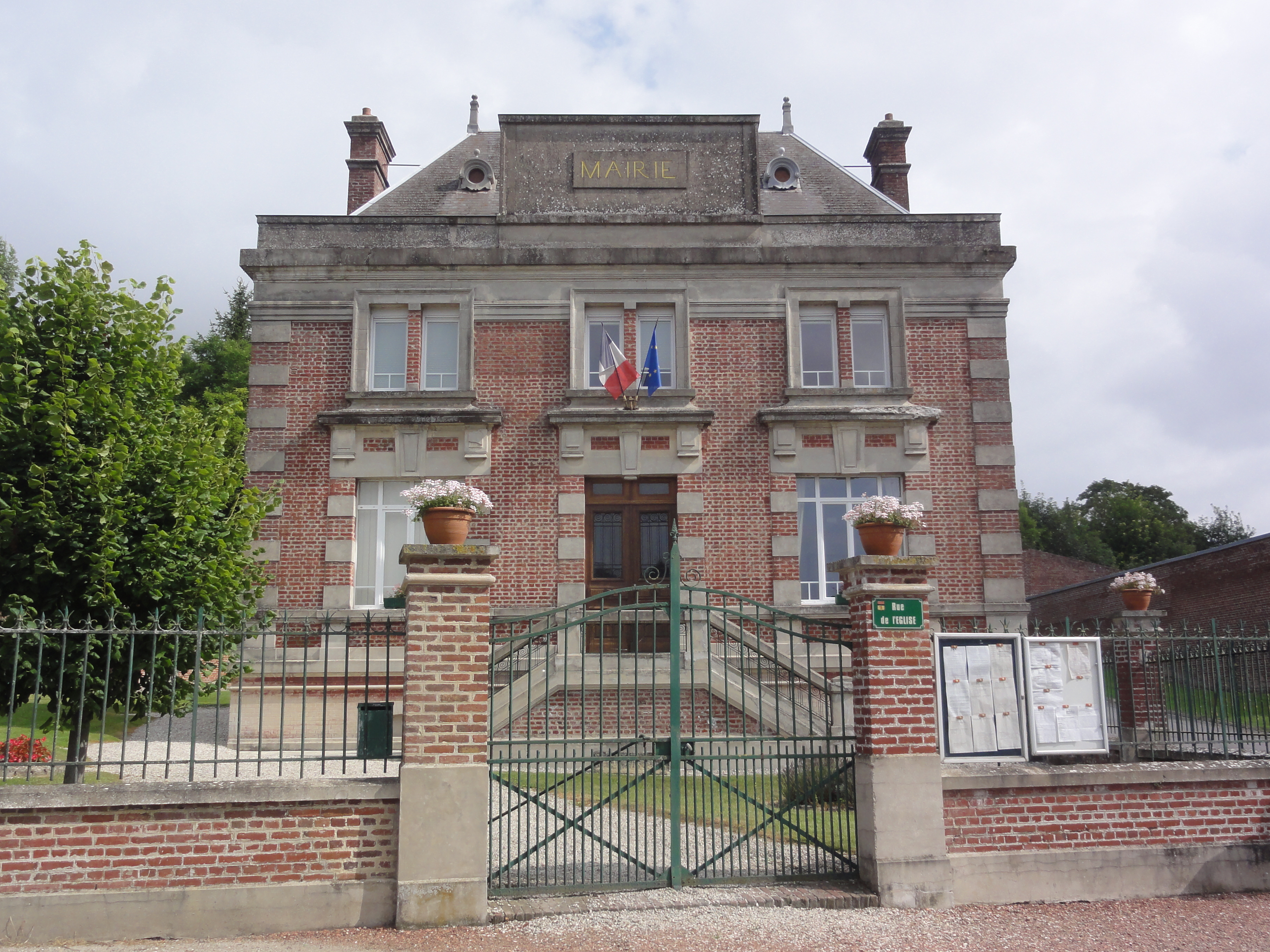 Caulaincourt (Aisne) mairie